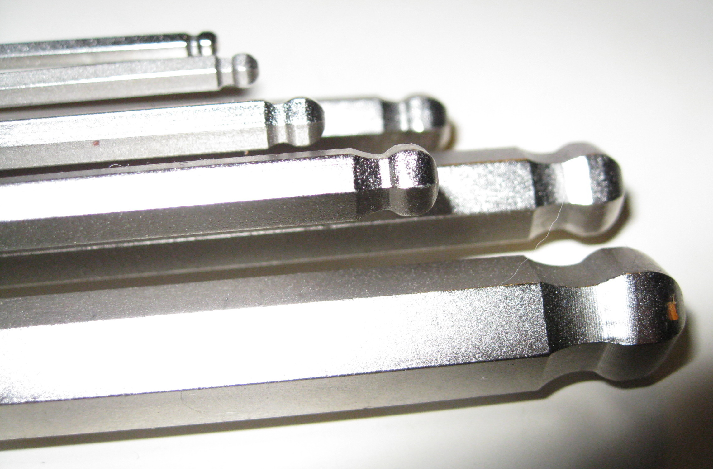 Allen Wrech with ball end